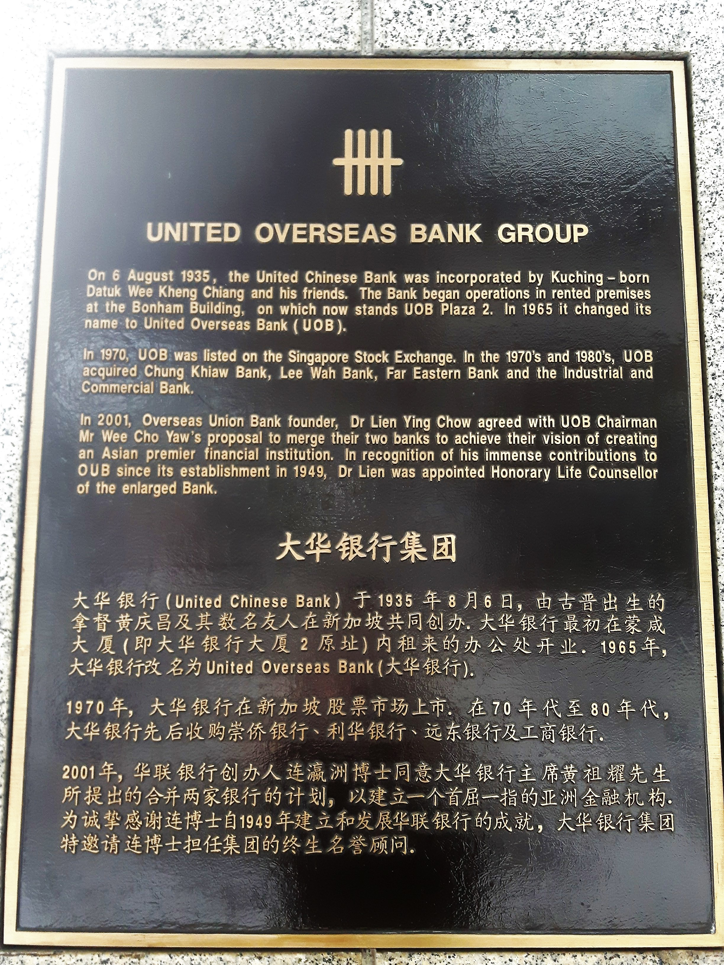 The text represents a summary of the history of the United Overseas Bank. The plaque can be seen at the United Overseas Bank building at United Overseas Bank Plaza in Singapore.